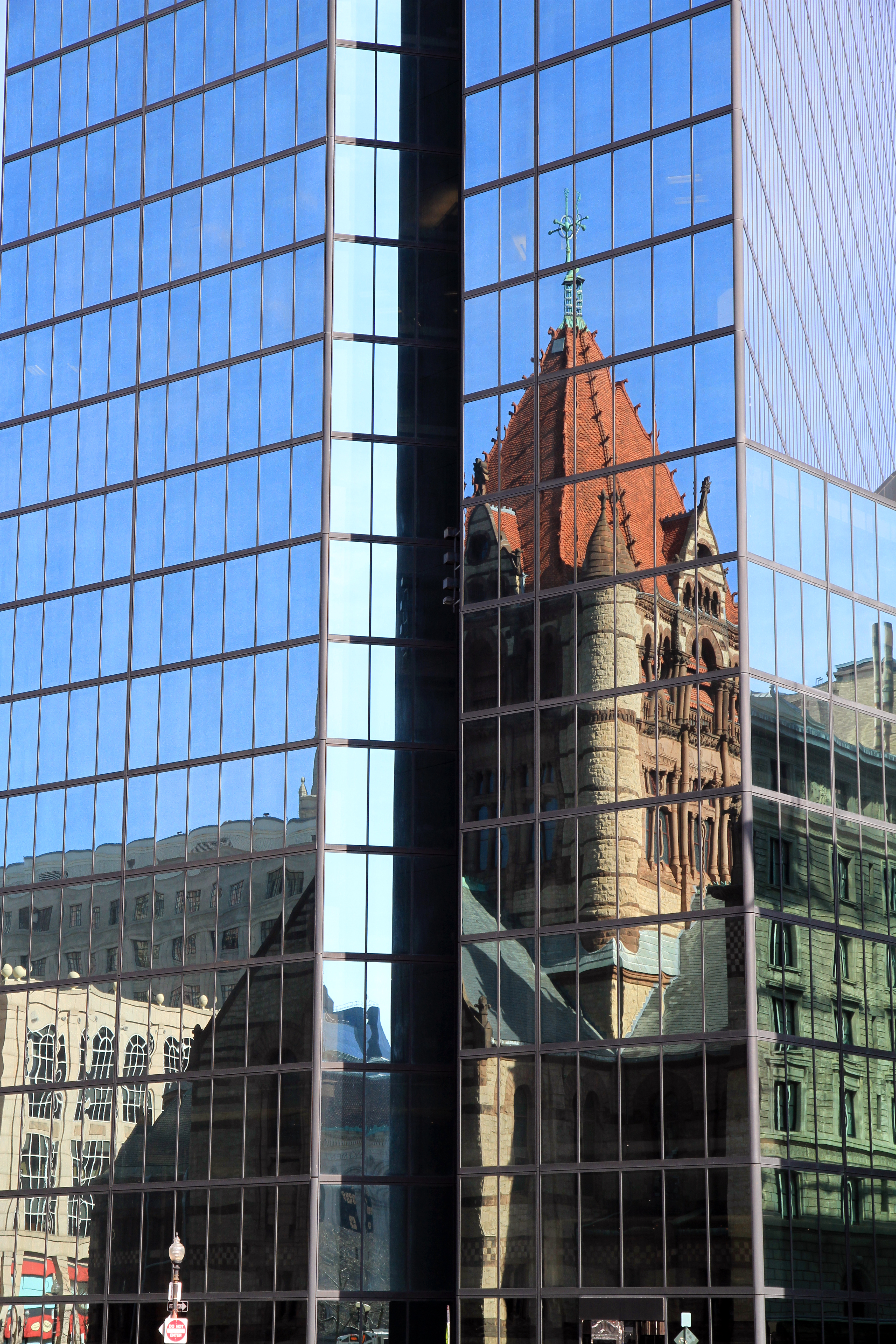 Reflections of Trinity Church